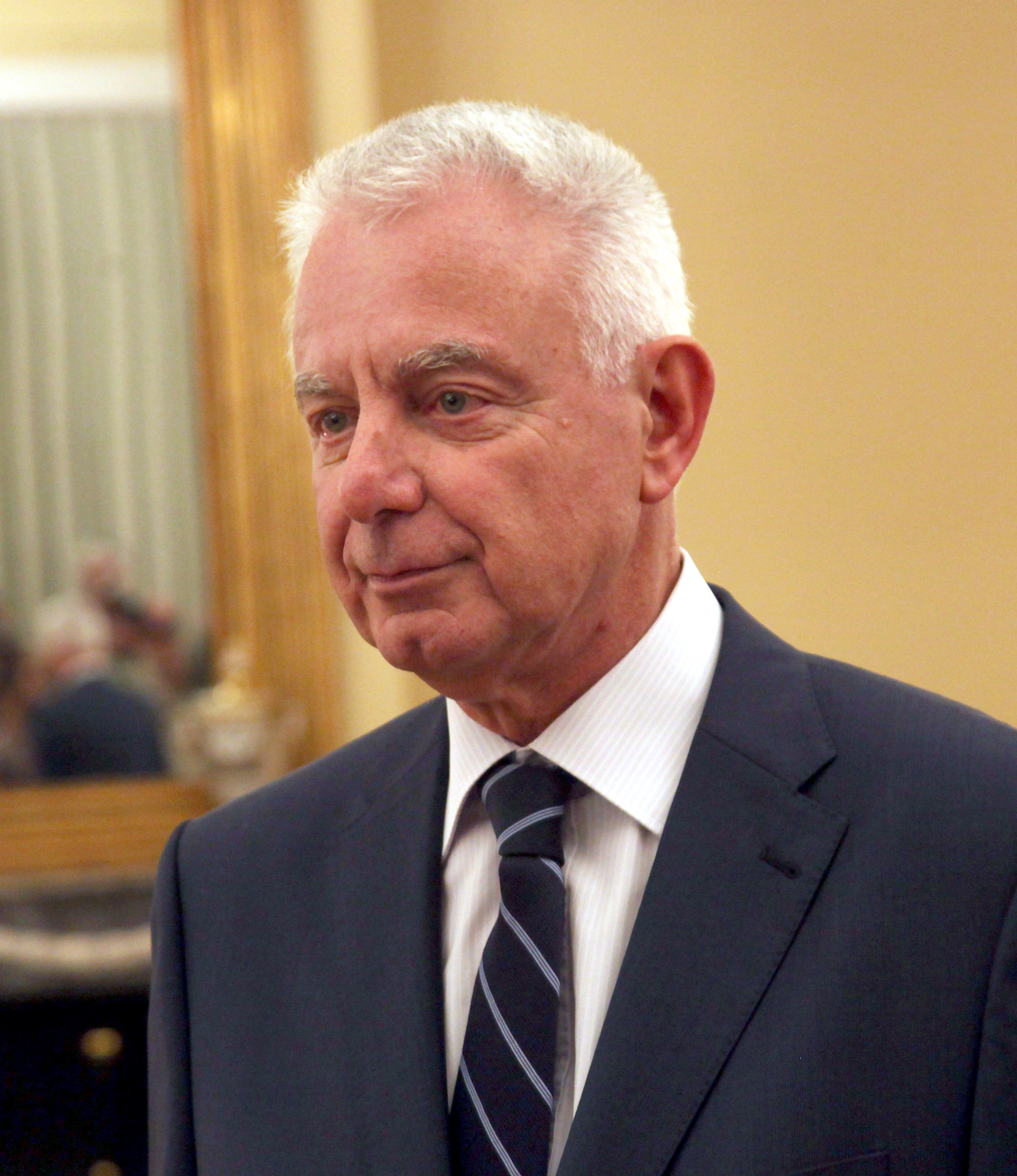 Greek interim Prime Minister Panagiotis Pikrammenos on 16 May 2012